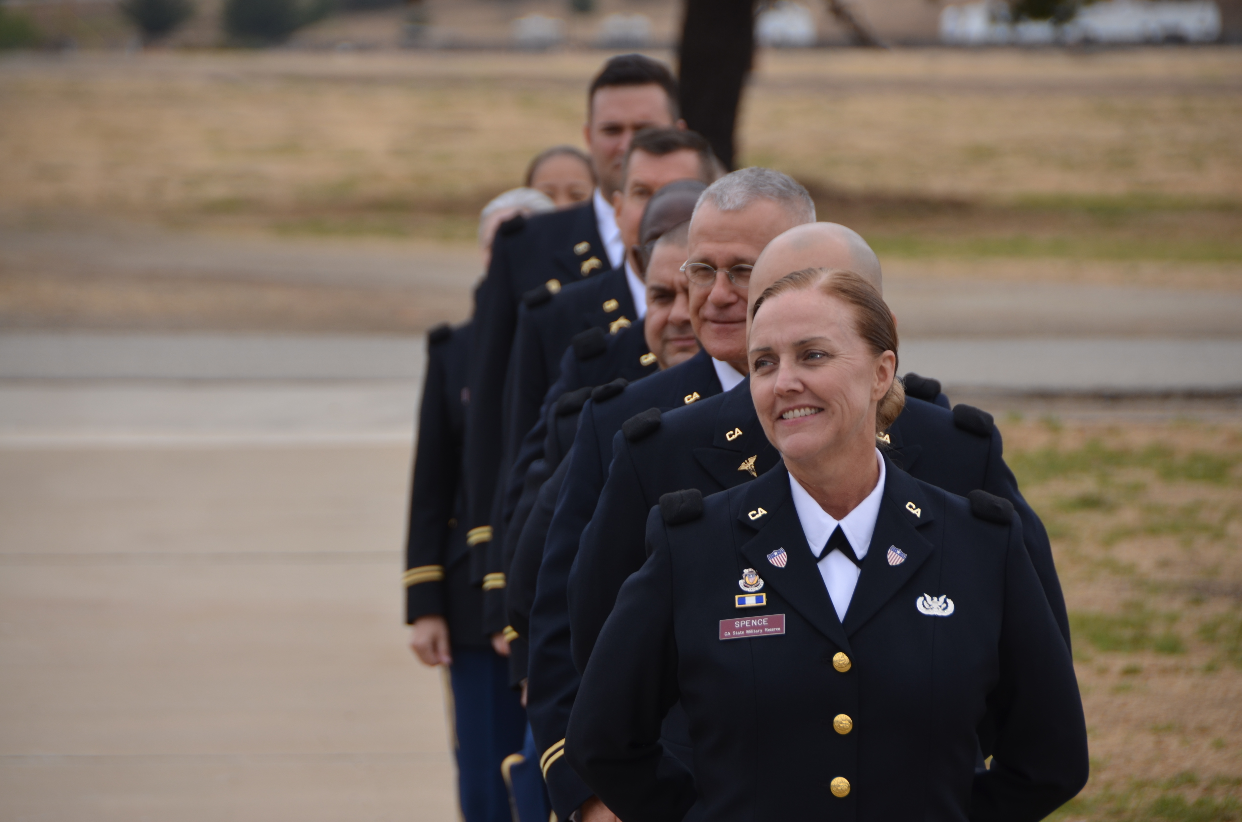 California State Military Reserve Warrant Officer Candidate Kristen Spence waits to enter Perlee Theatre on Camp San Luis Obispo Aug. 20 where she and her fellow members of Class 58 will be commissioned as California's newest officers.